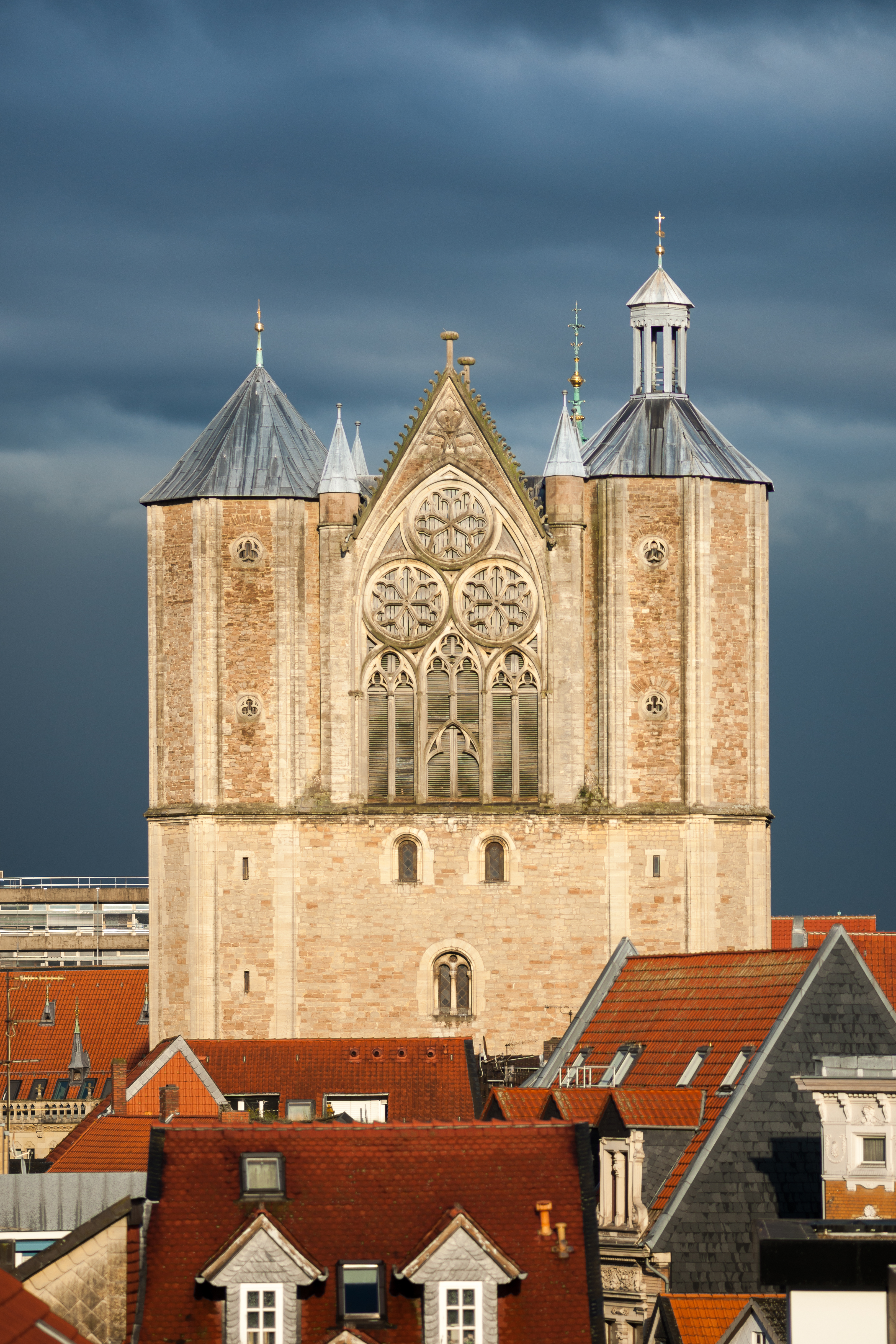 Brunswick Cathedral St. Blaise, Westwork, Brunswick, Lower Saxony